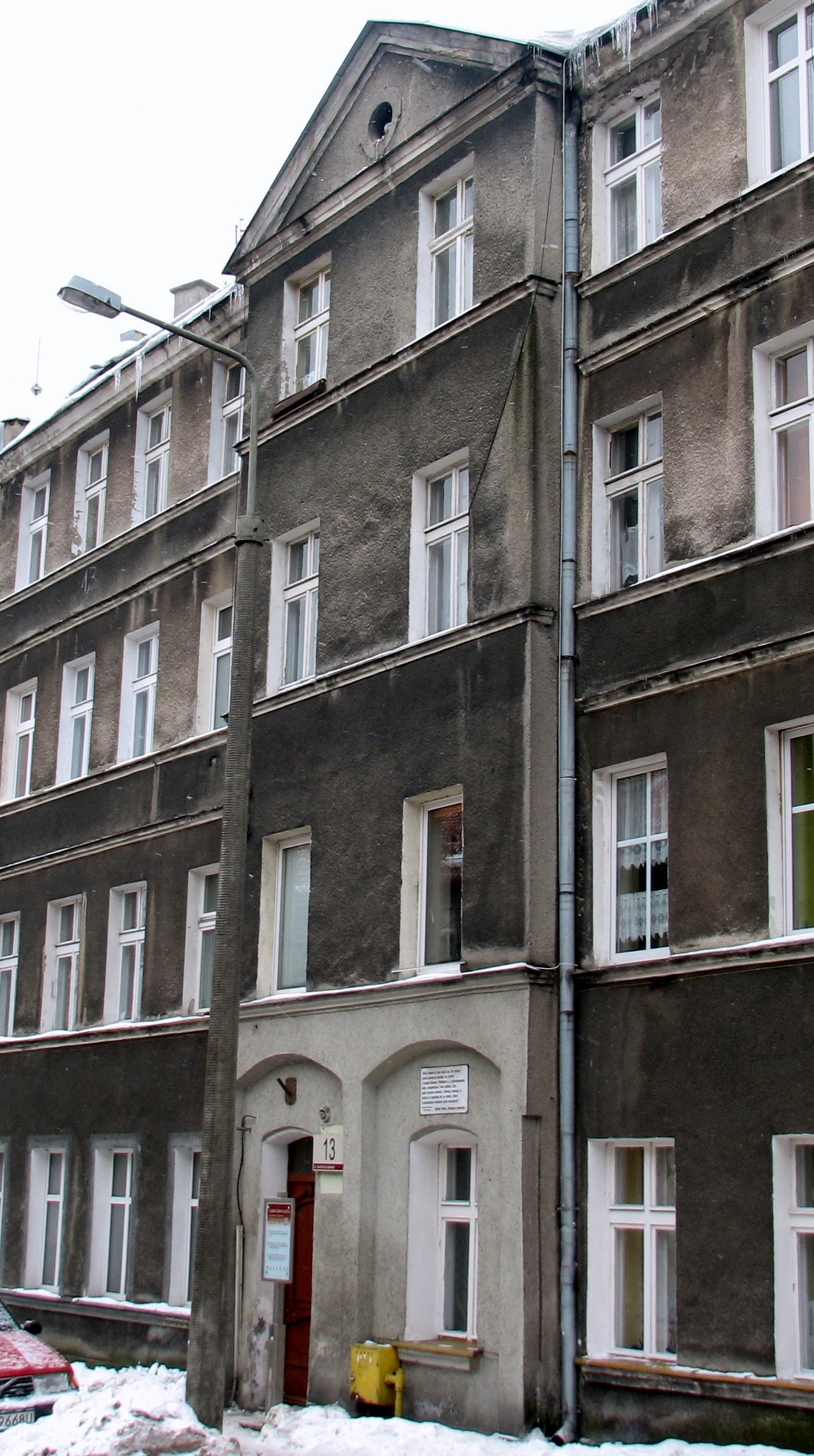 Günter Grass pre-war house in Gdańsk during a small snowstorm.